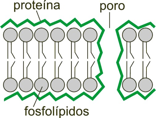 davson and danielli model cell membrana jpg